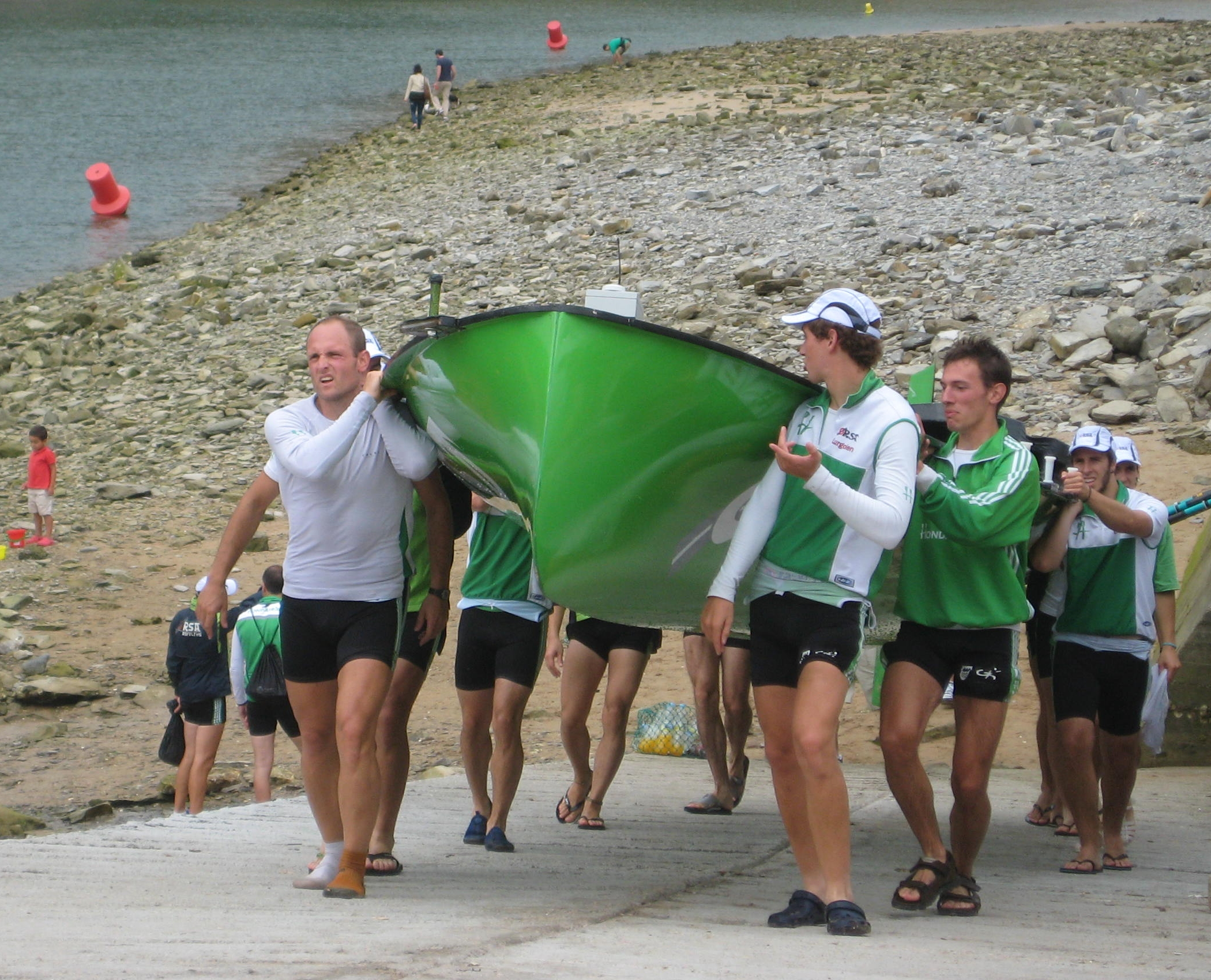 Members of Hondarribia Arraun Elkartea (Hondarribia-Fuenterrabia Rowing Club) carry their ship on their shoulders out of the Ria of Pentzia. XXIIIth Flag of Plentzia